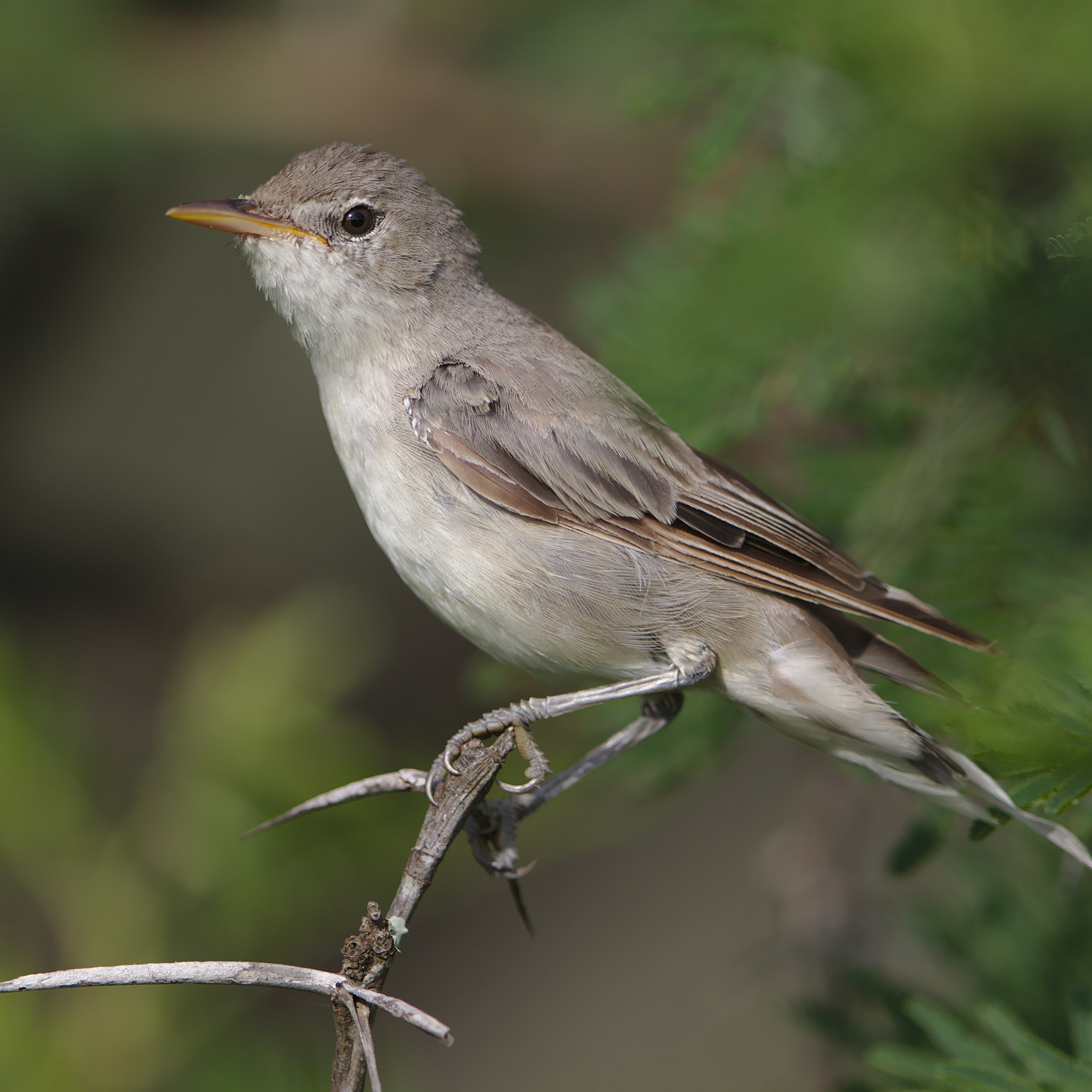 The olive-tree warbler leaves its breeding ground in southern Europe every year, and flies to southern Africa for the northern winter. They are fairly common here, but not very easy to find as they are secretive and don't usually call. A famous location for them is in the dense acacia by the airstrip at Mkuze where these photos were taken.